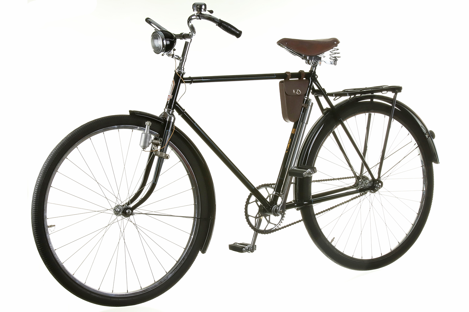 USSR bicycle ZiS V-110 «Progres” (ZiS Moscow Automotive Factory) 1954